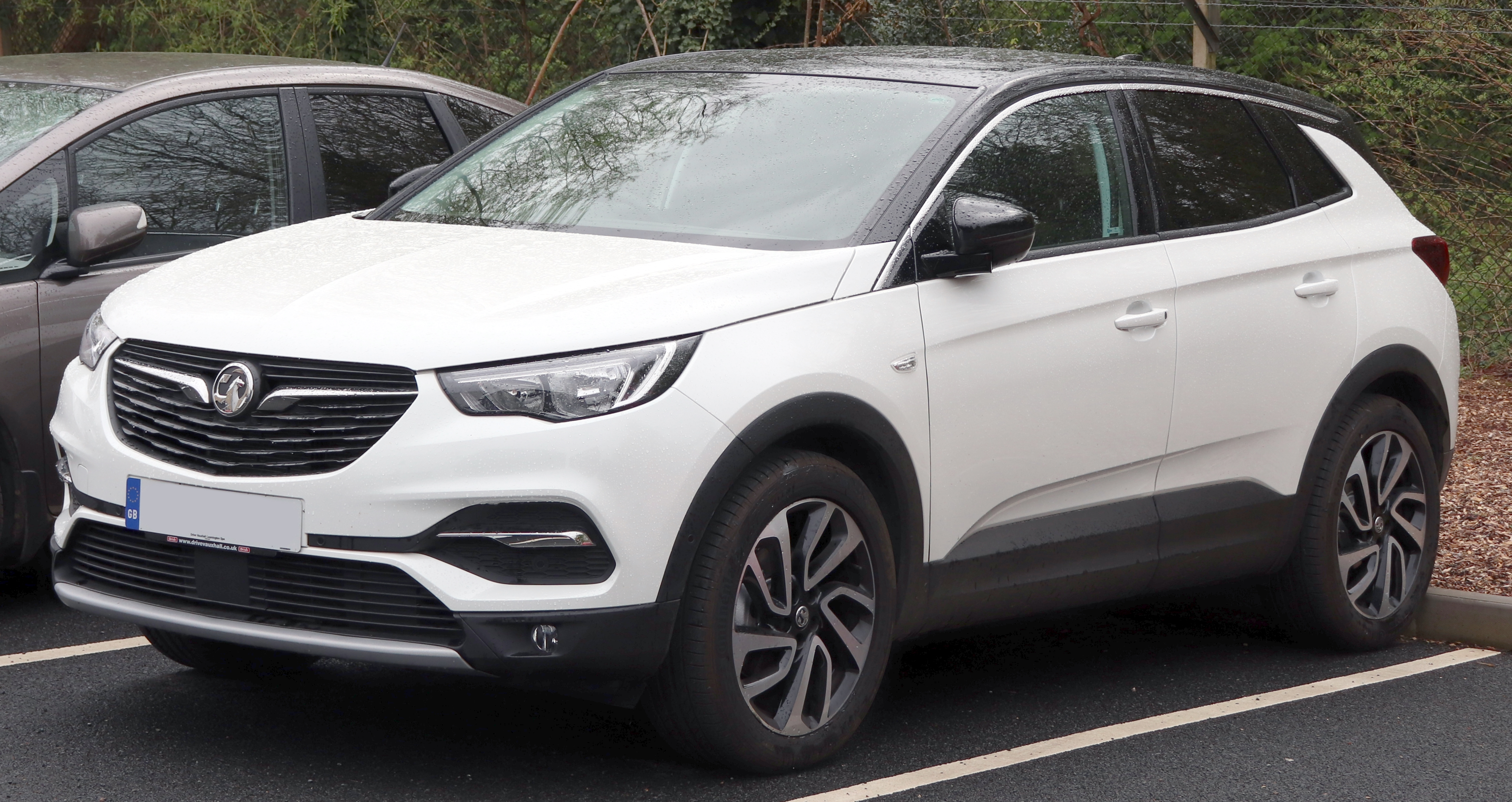 2018 Vauxhall Grandland X Elite Nav Turbo Diesel 1.6 Front Taken in Leamington Spa